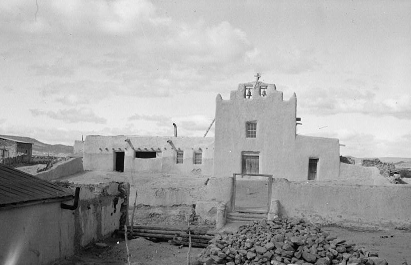 San Jose de Laguna Mission Church & Convento, Laguna Pueblo, Valencia County, NM Historic American Buildings Survey FRONT ELEVATION (EAST) HABS NM,31-LAGUP,1-2